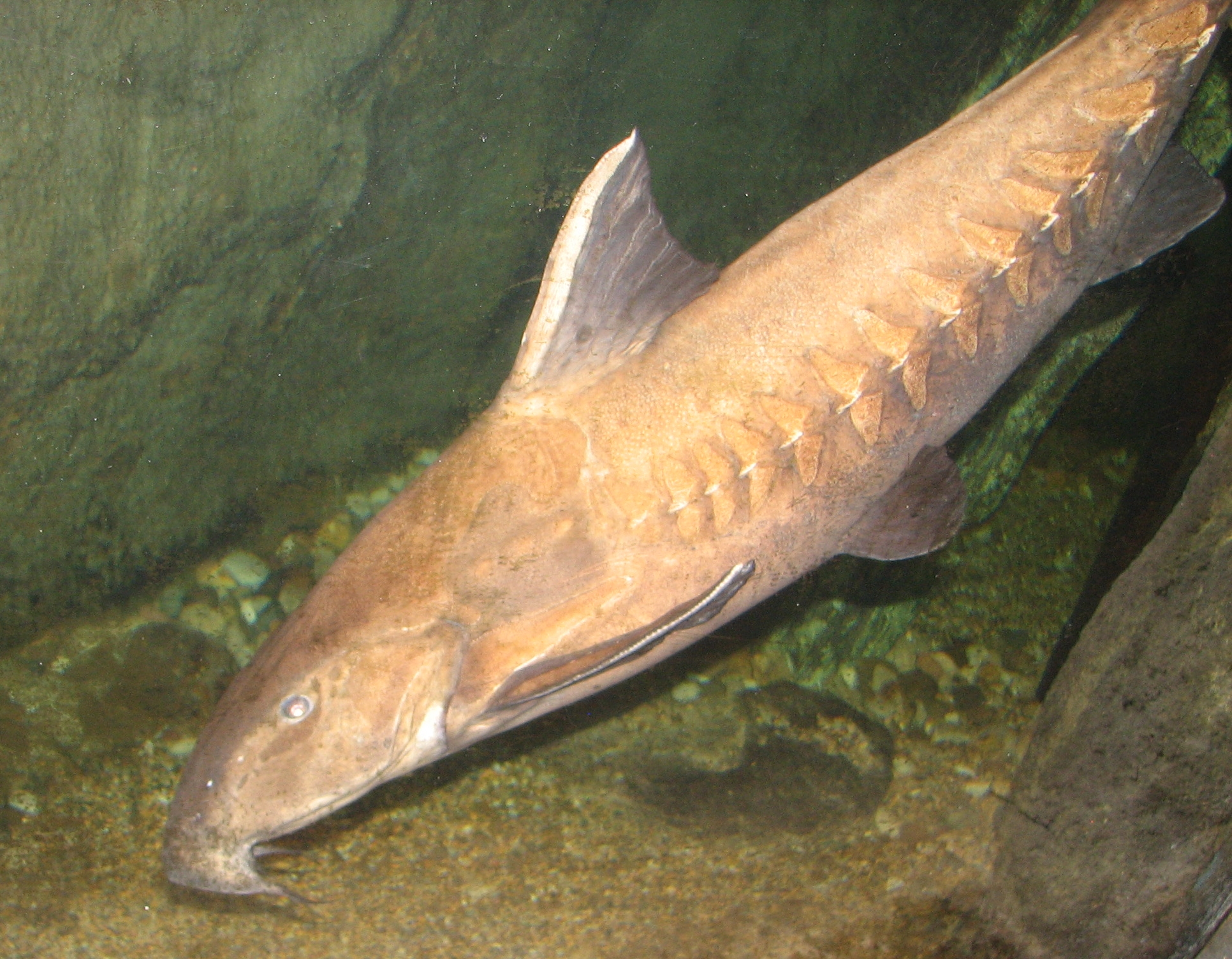 Dolphin Catfish (Pseudodoras niger or Oxydoras niger) also known as Black sawtooth catfish at the Louisville Zoo